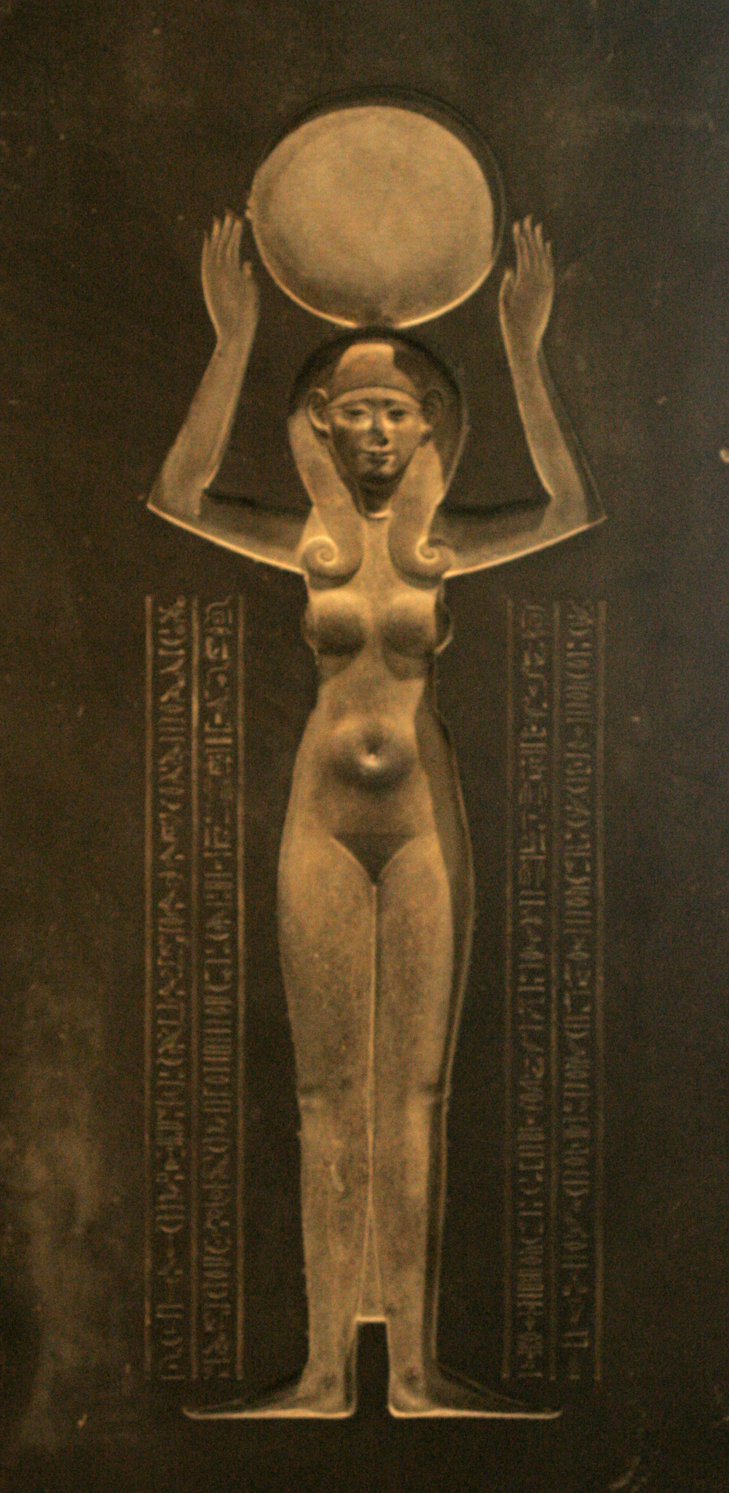 Artist Unknown artistDescription Sarcophagus cover of Teos 4th century BCE GreywaukeCollection Louvre Museum (Inventory)Native nameMusée du LouvreParent institutionÉtablissement public du musée du Louvre LocationParisCoordinates48° 51′ 37.42″ N, 2° 20′ 15.36″ E Established1793 Web page control : Q19675 VIAF: 257711507 ISNI: 0000 0001 2260 177X ULAN: 500125189 LCCN: n80020283 NLA: 35912436 WorldCat institution QS:P195,Q19675Accession number D 9Credit line Purchased in Egypt by ChampollionReferences Louvre.frSource/Photographer Rama Sarcophagus cover of Teos 4th century BCE Greywauke